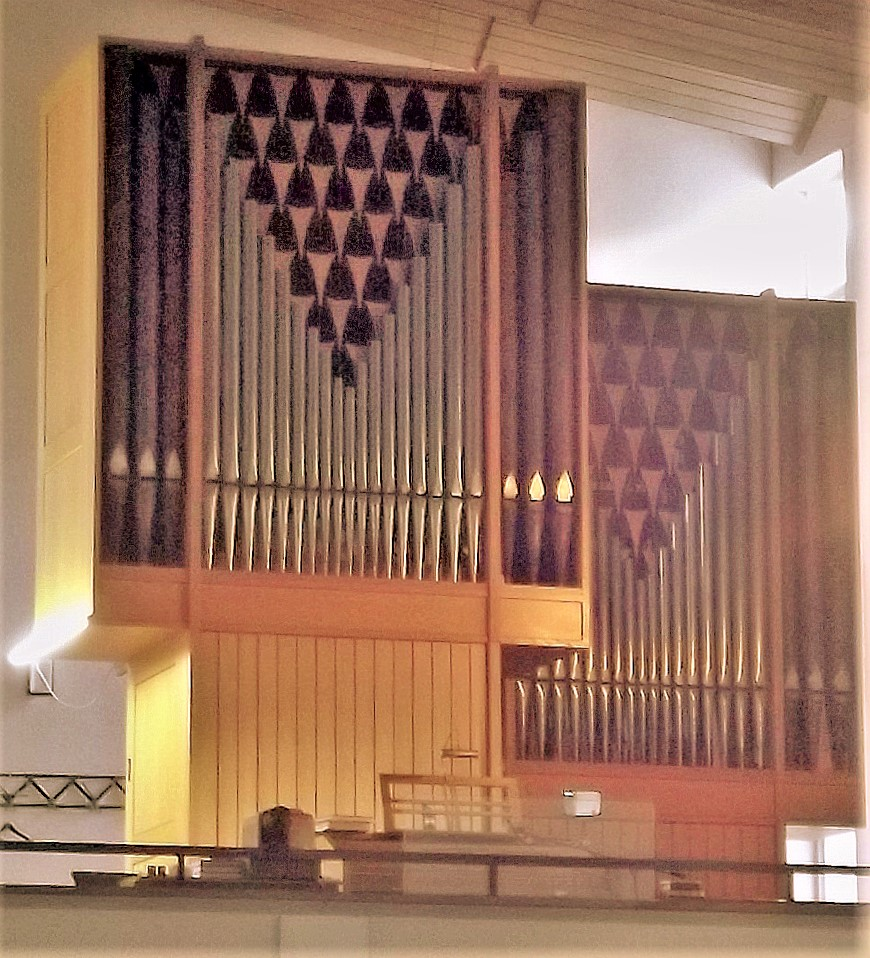 Interior of the roman catholic St. Joseph's church in Fraulautern, Saarland, Germany